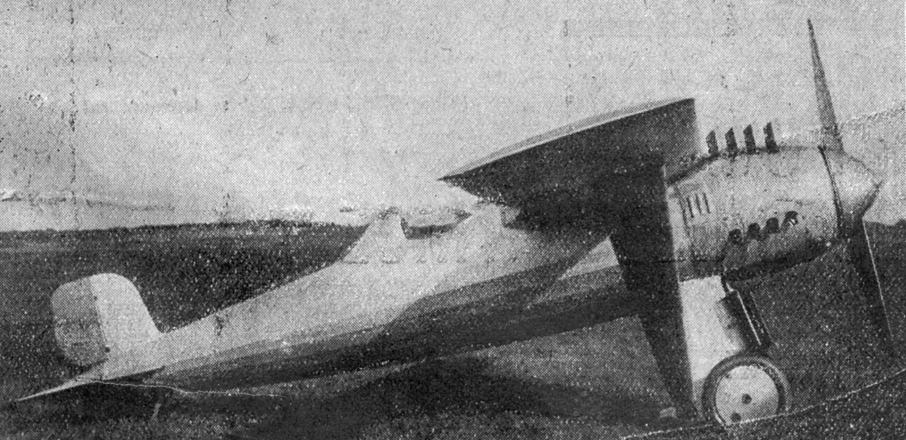 Letov Š-8 photo from Les Ailes October 7, 1926